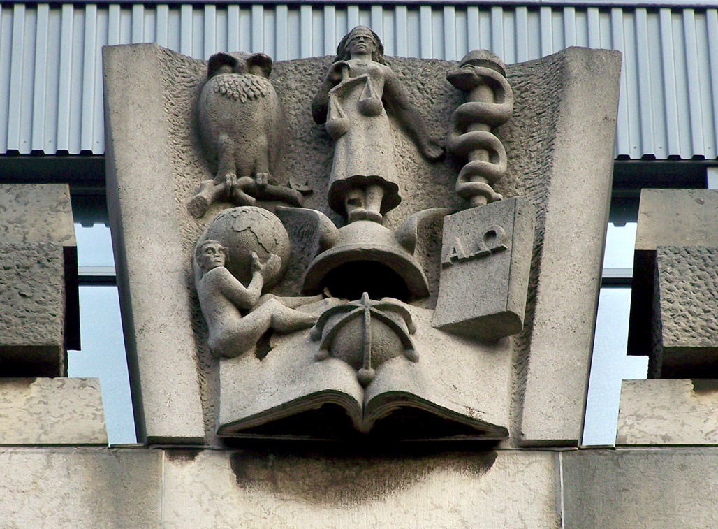 Ornament on top of the University Library at Singel in Amsterdam.